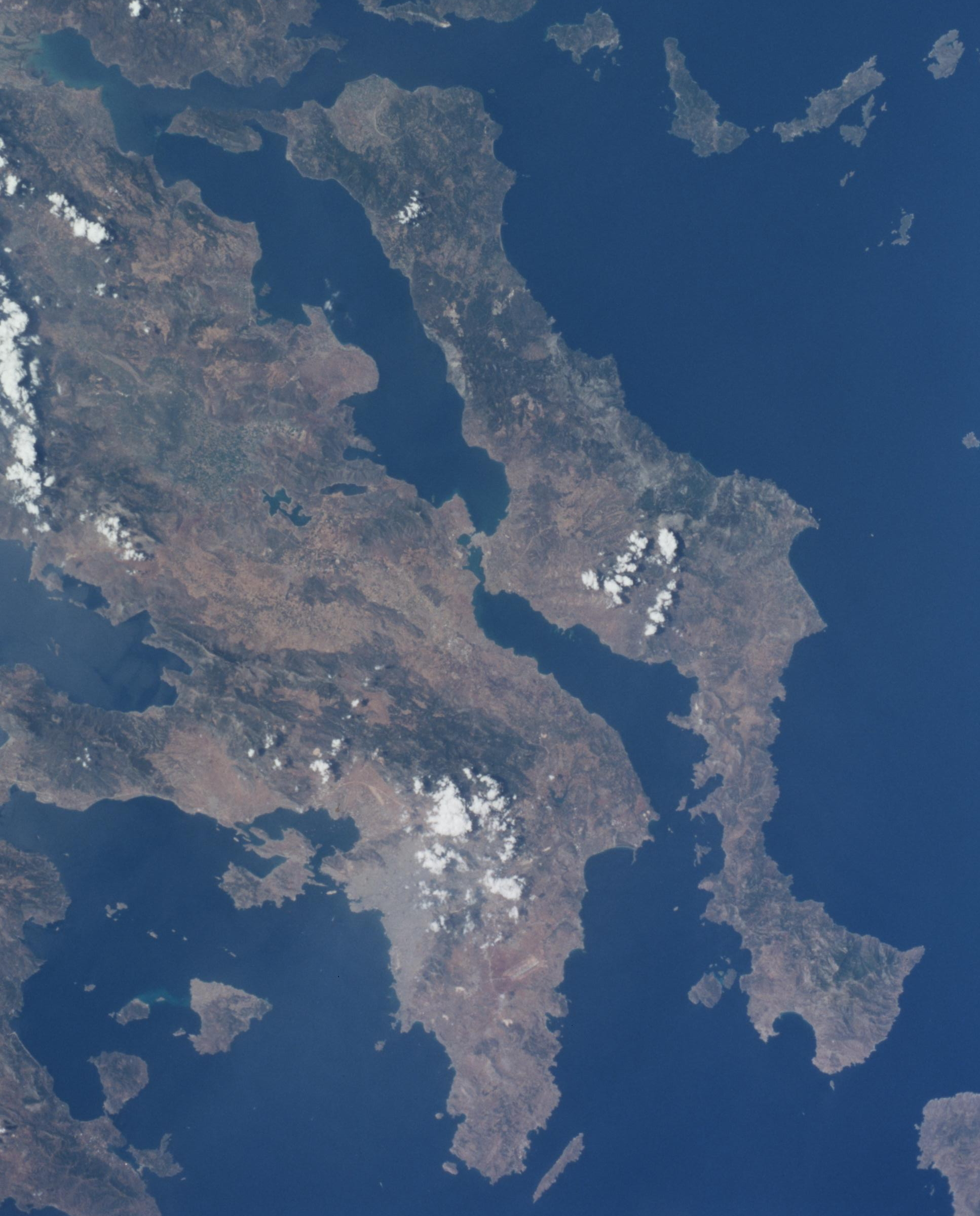 Greek Island Euboea from space